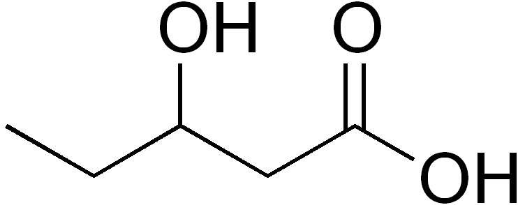 chemical structure of 3-hydroxypentanoic acid (beta-hydroxypentanoate, beta-hydroxyvalerate)